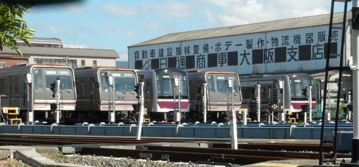 Osaka Municipal Subway Dainichi Inspection Depot